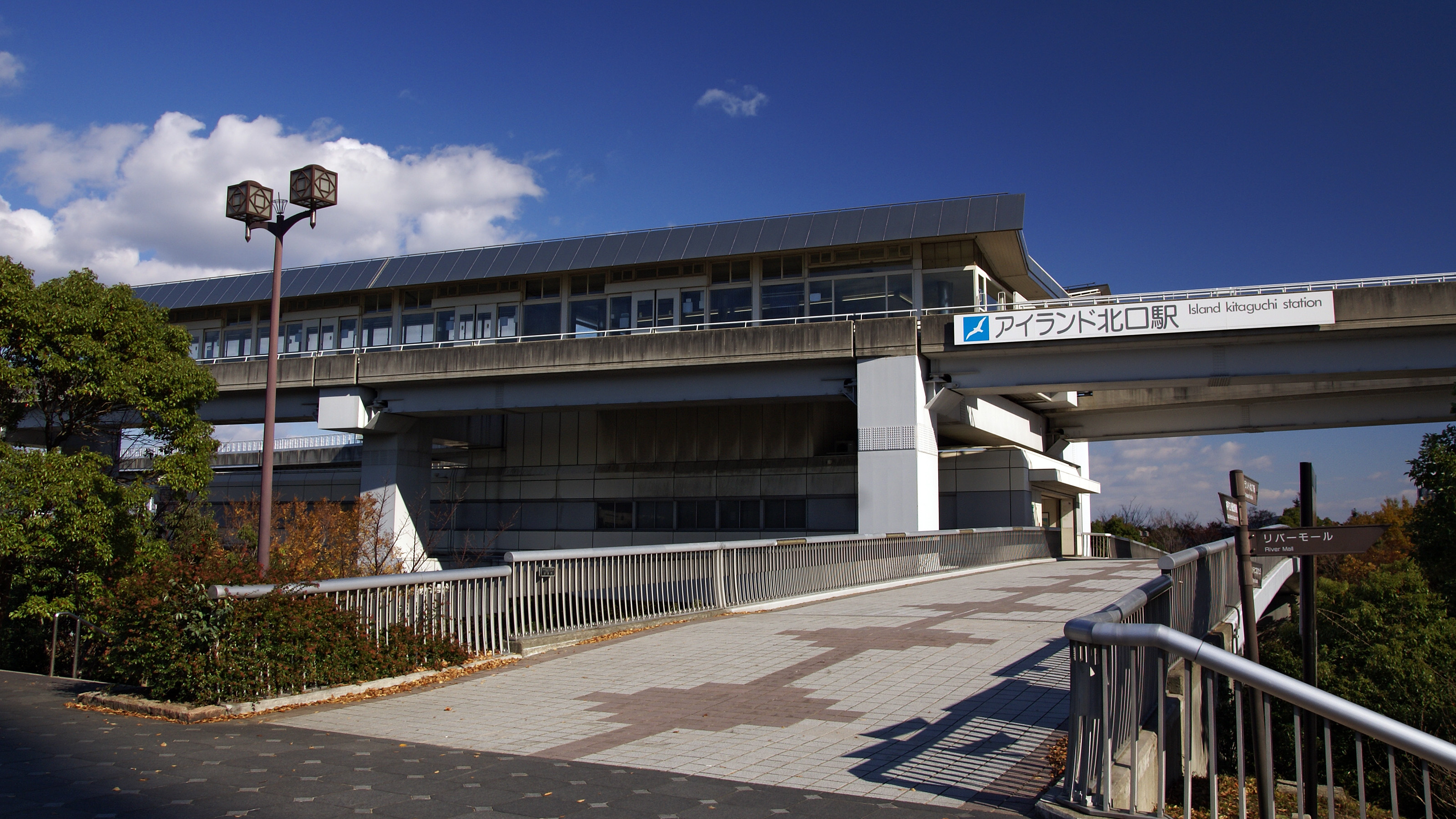 Island Kitaguchi Station in Kobe, Hyogo, Japan